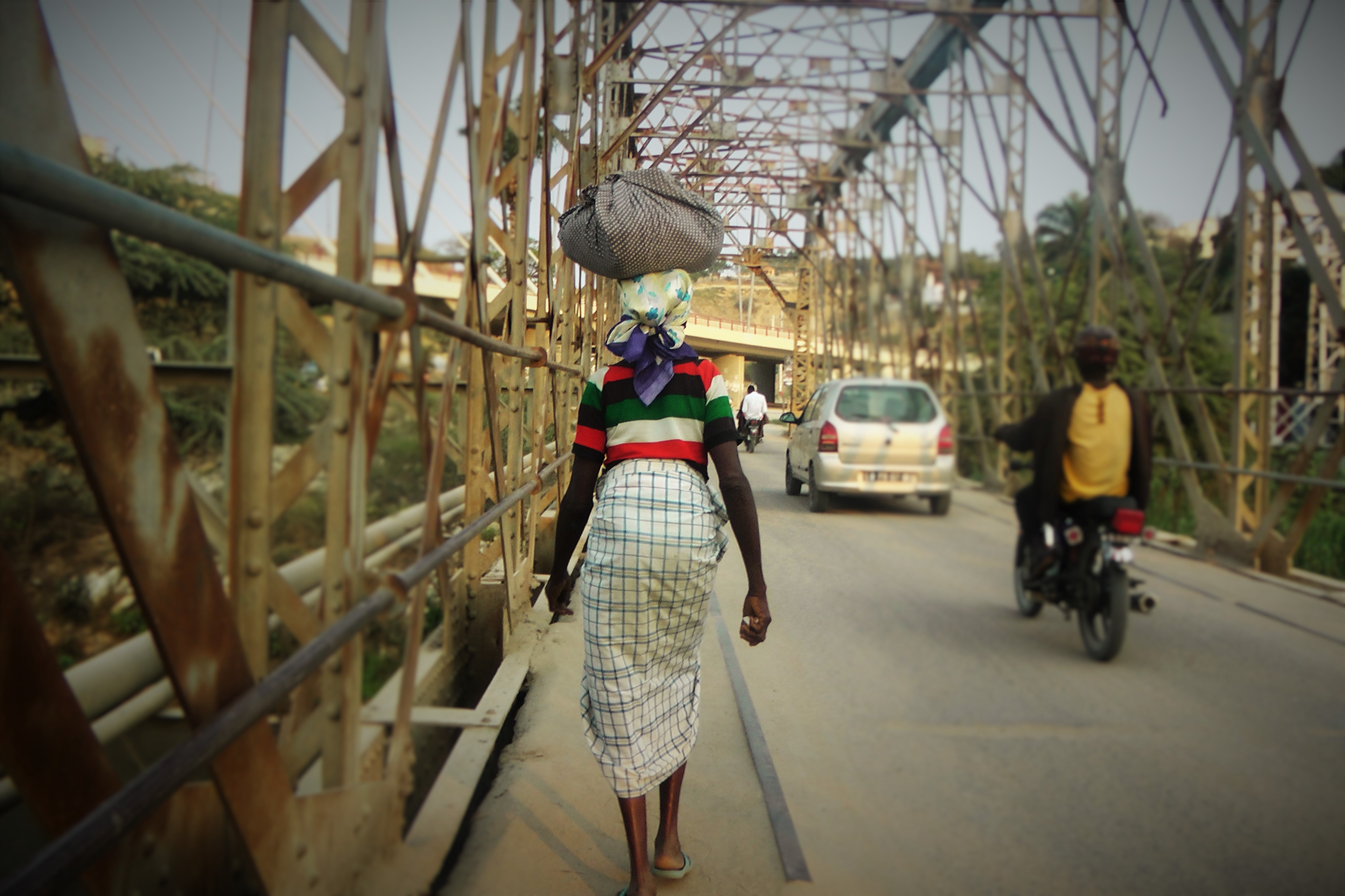 Is the Catumbelas´s bridge This is an image with the theme "Africa on the Move or Transport" from: Angola